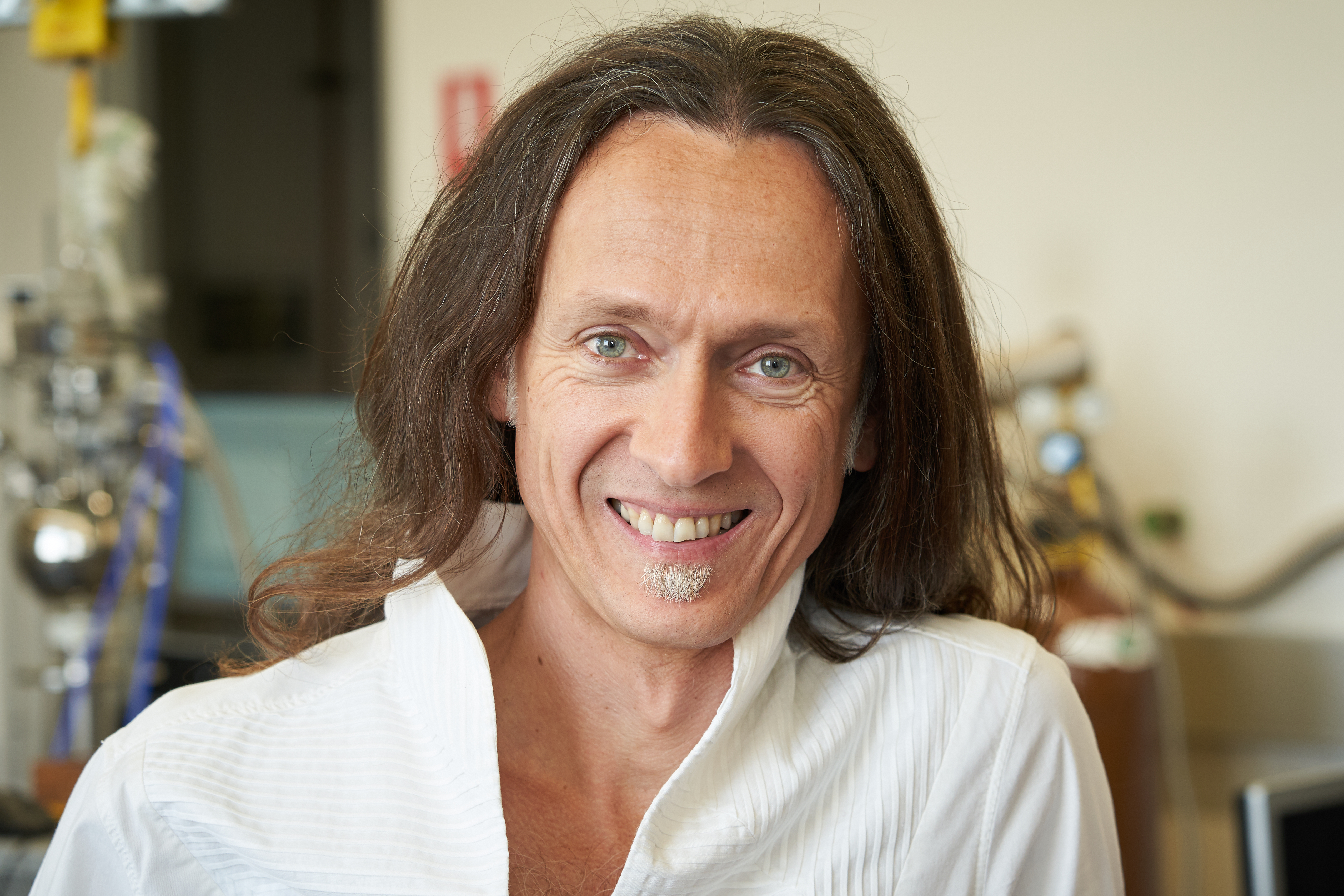 Andrea Morello, Professor of Electrical Engineering at UNSW, Sydney. Photo taken in the Fundamental Quantum Technologies Laboratory, 2019.